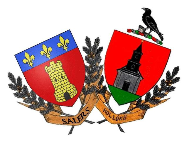 Fantaisie héraldique créée pour les soins du Jumelage entre Salers et Hollókő, création et propriété exclusives de Cédric Tartaud-Gineste